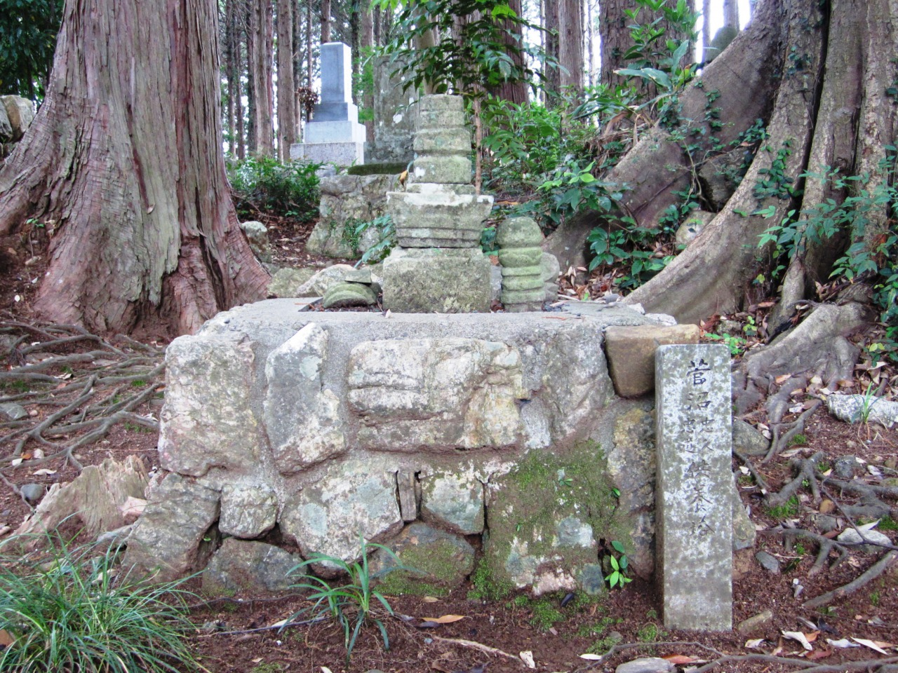 Graves of Suganuma Tadahisa and Tadamichi at Ryōtan-ji in Hamamatsu, Shizuoka.